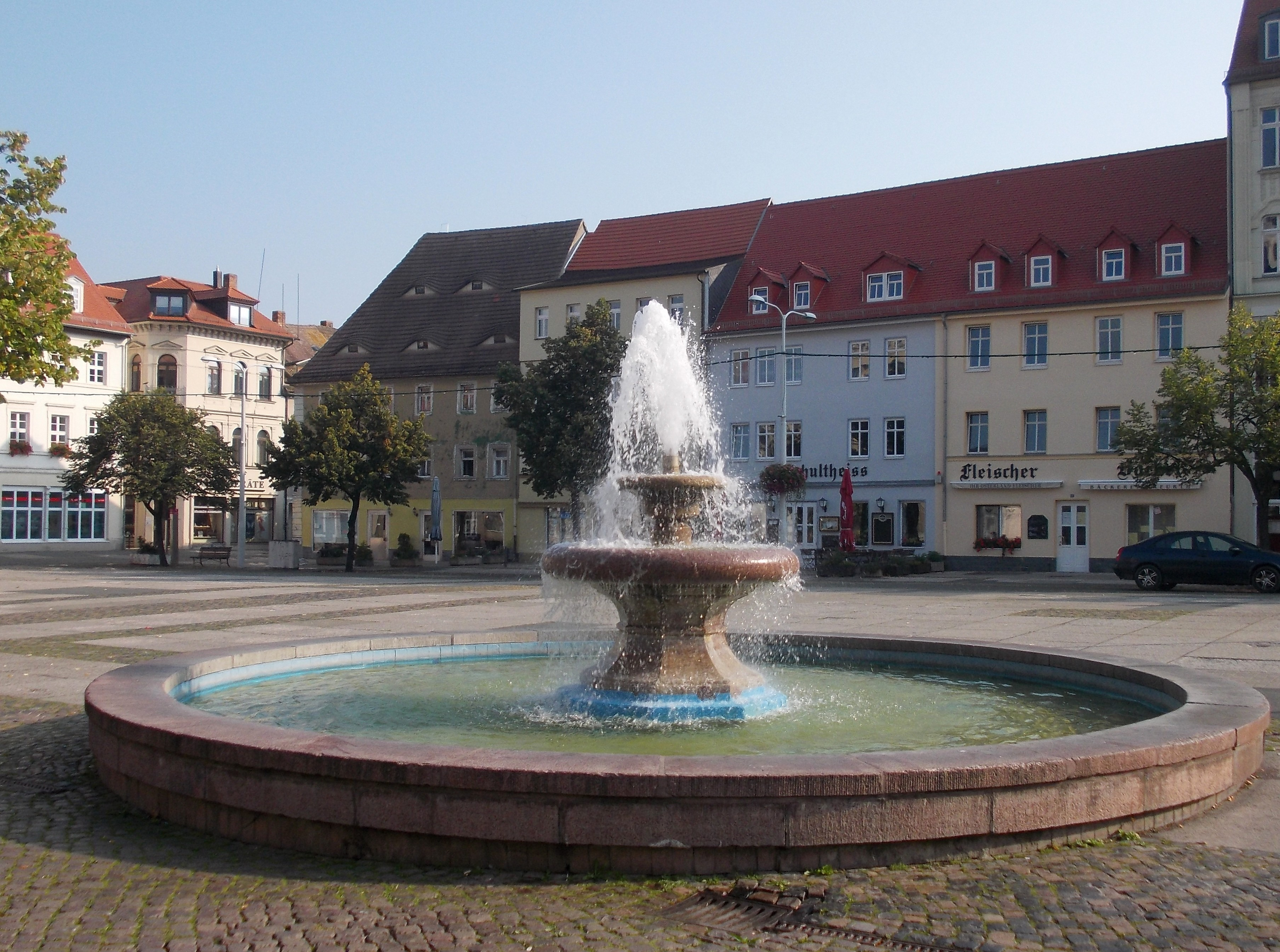 Fountain in the market square of Weissenfels (district: Burgenlandkreis, Saxony-Anhalt)